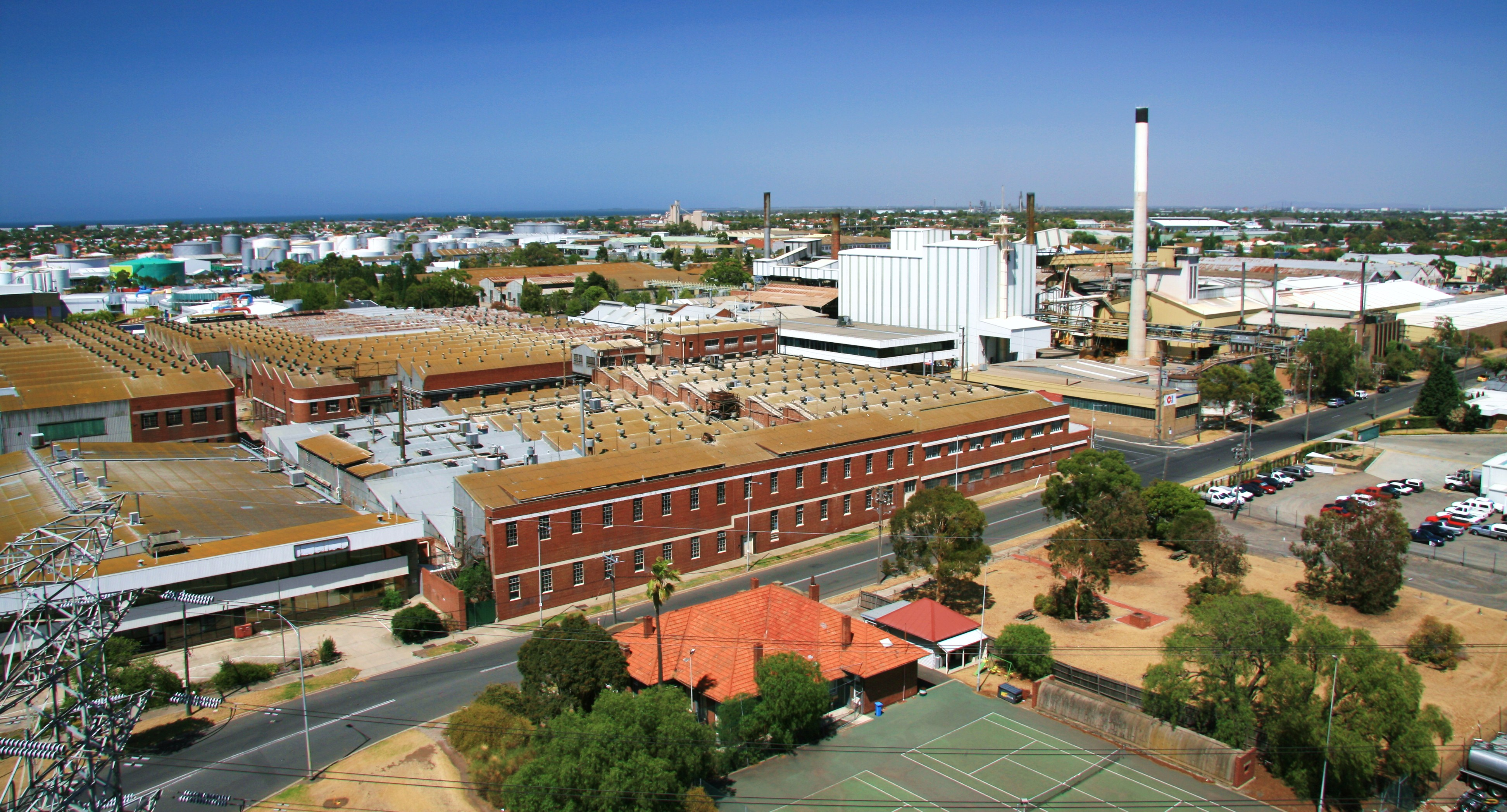 A photo of Spotswood from the Westgate Bridge. If you are wondering how i got onto the Westgate Bridge to take this photo, it was during a site inspection for a project i am involved with :)